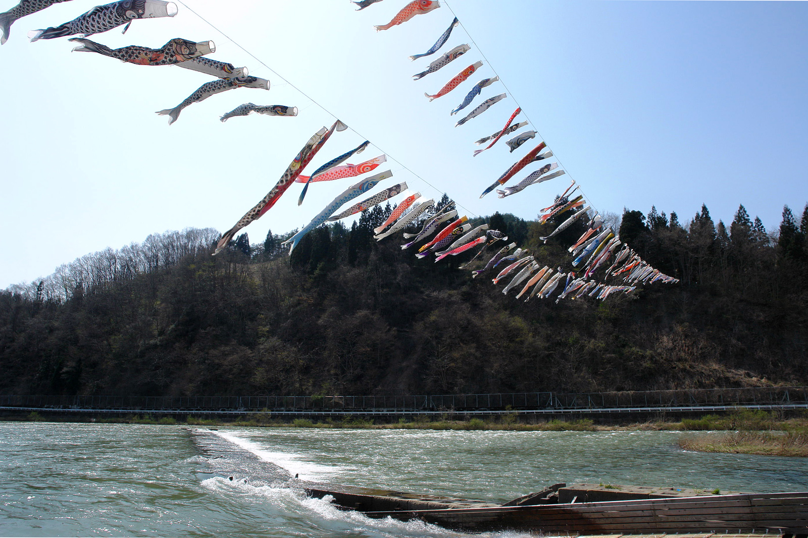 Koinobori above the Mogami River in Shirataka Town, Yamagata Prefecture, Japan